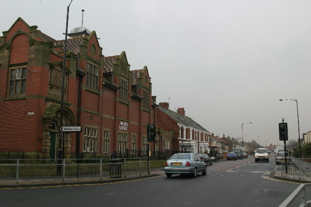 Welbeck Road and Walker Library. Looking west towards Newcastle city centre.